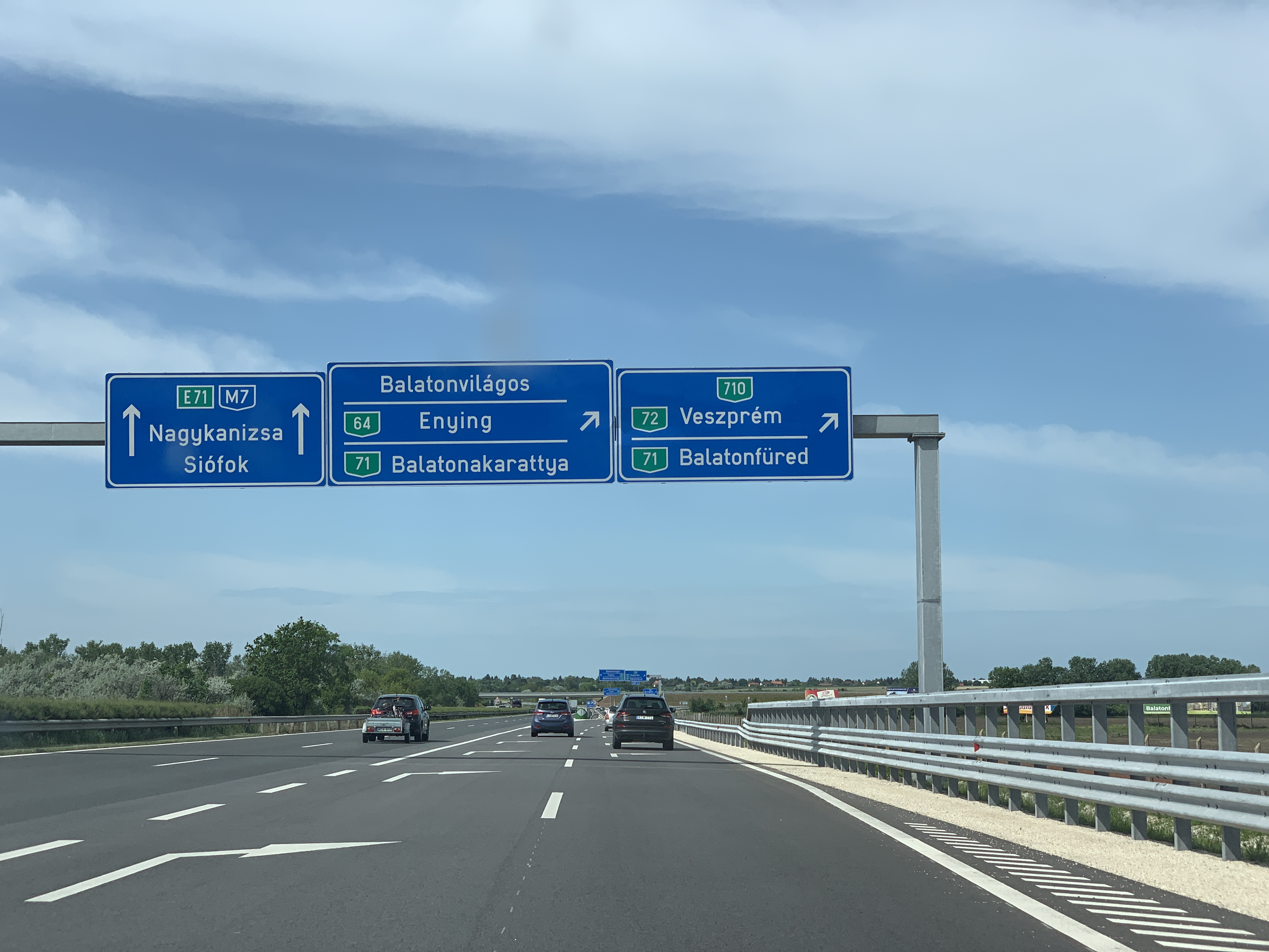 Motorway M7 in Hungary, near Balatonfőkajár, in the direction of Letenye, Croatian border